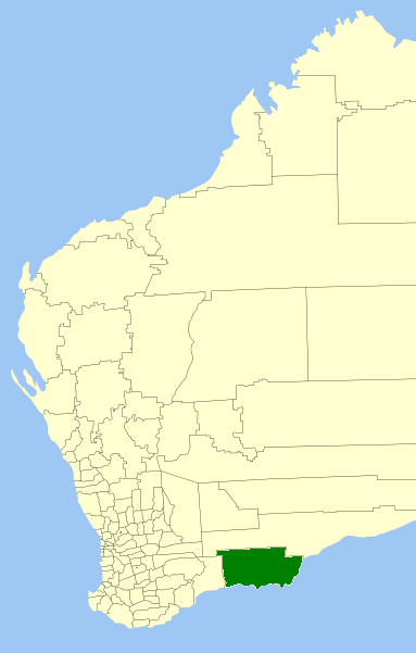 Location of the Local Government Area in Western Australia